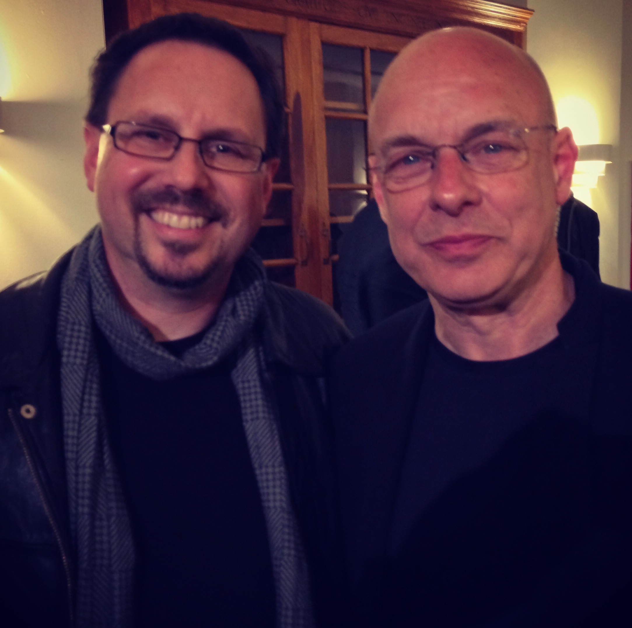 Photo of Kevin Keller and Brian Eno, taken at Cooper Union, New York, NY.